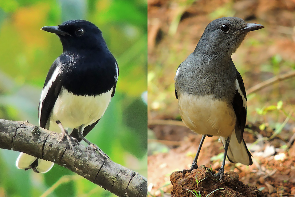 Left - Male Right -Female Oriental magpie-robin (Copsychus saularis)